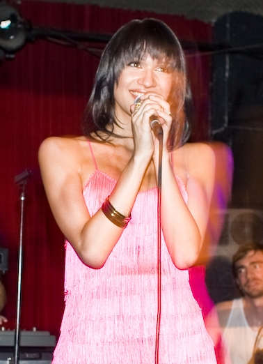 A cropped photo from Hercules and Love Affair's first live show in Brooklyn, New York.